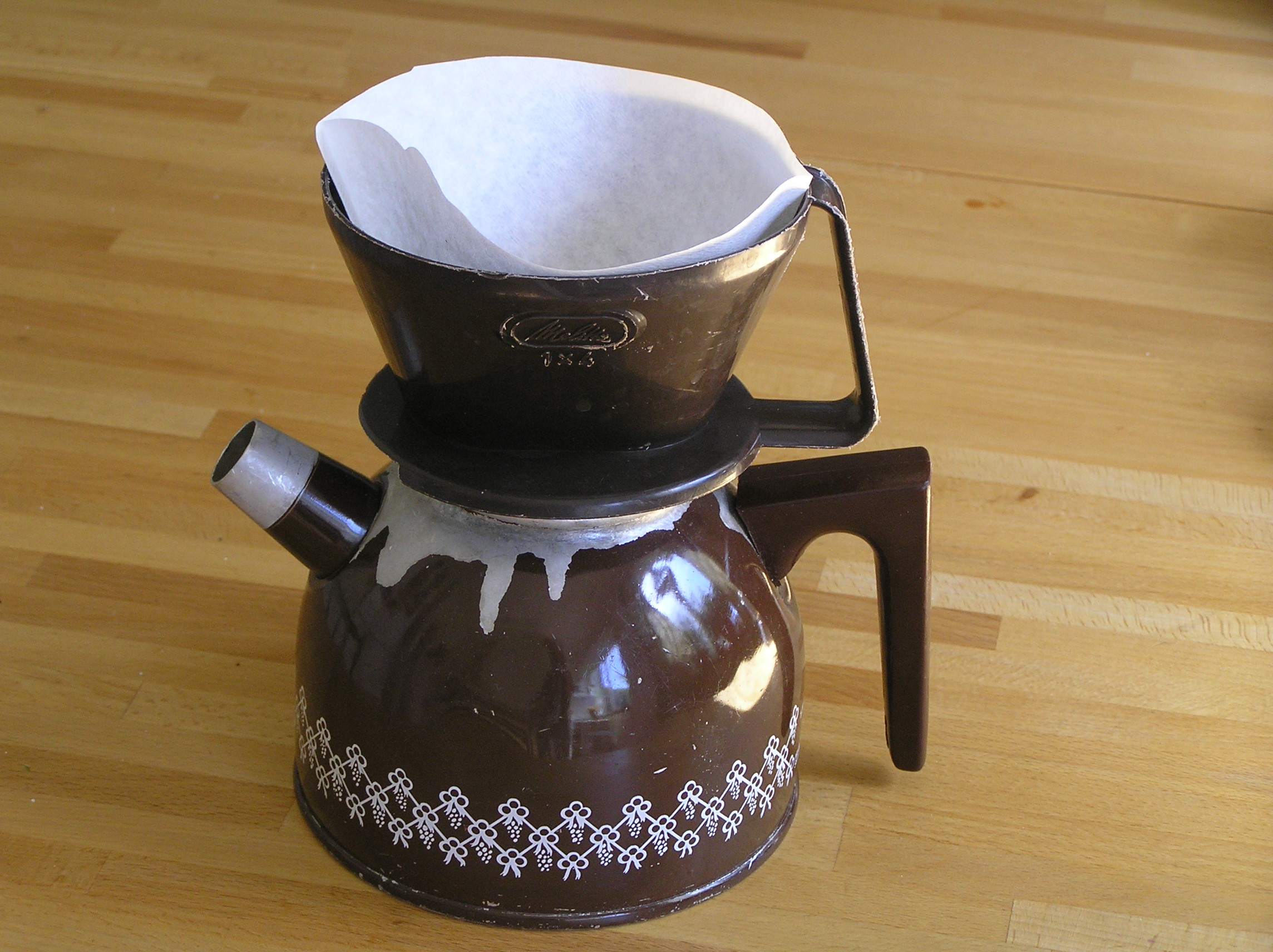 Coffee filter